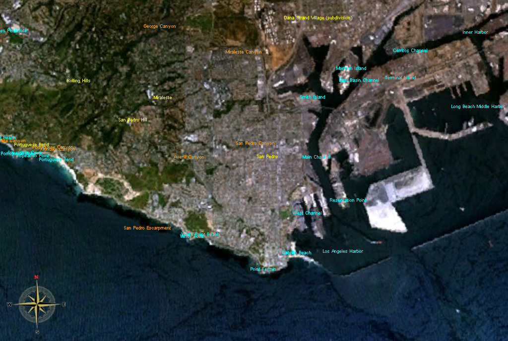 NASA World Find